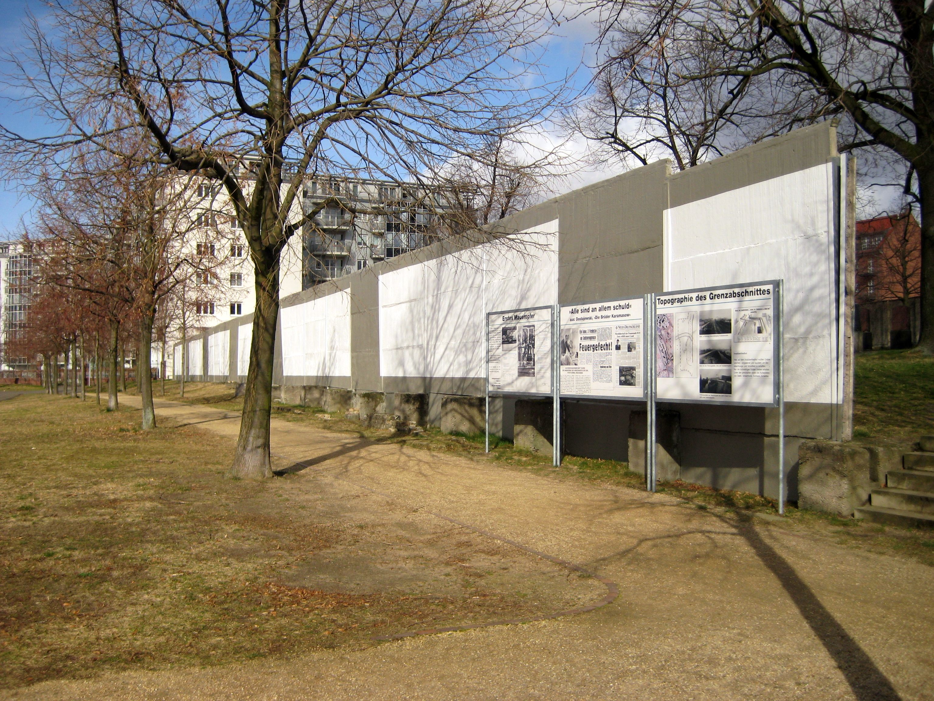 Remnants of the East German border fortifications (“Berlin Wall”) at Invalidenfriedhof cemetery in Berlin